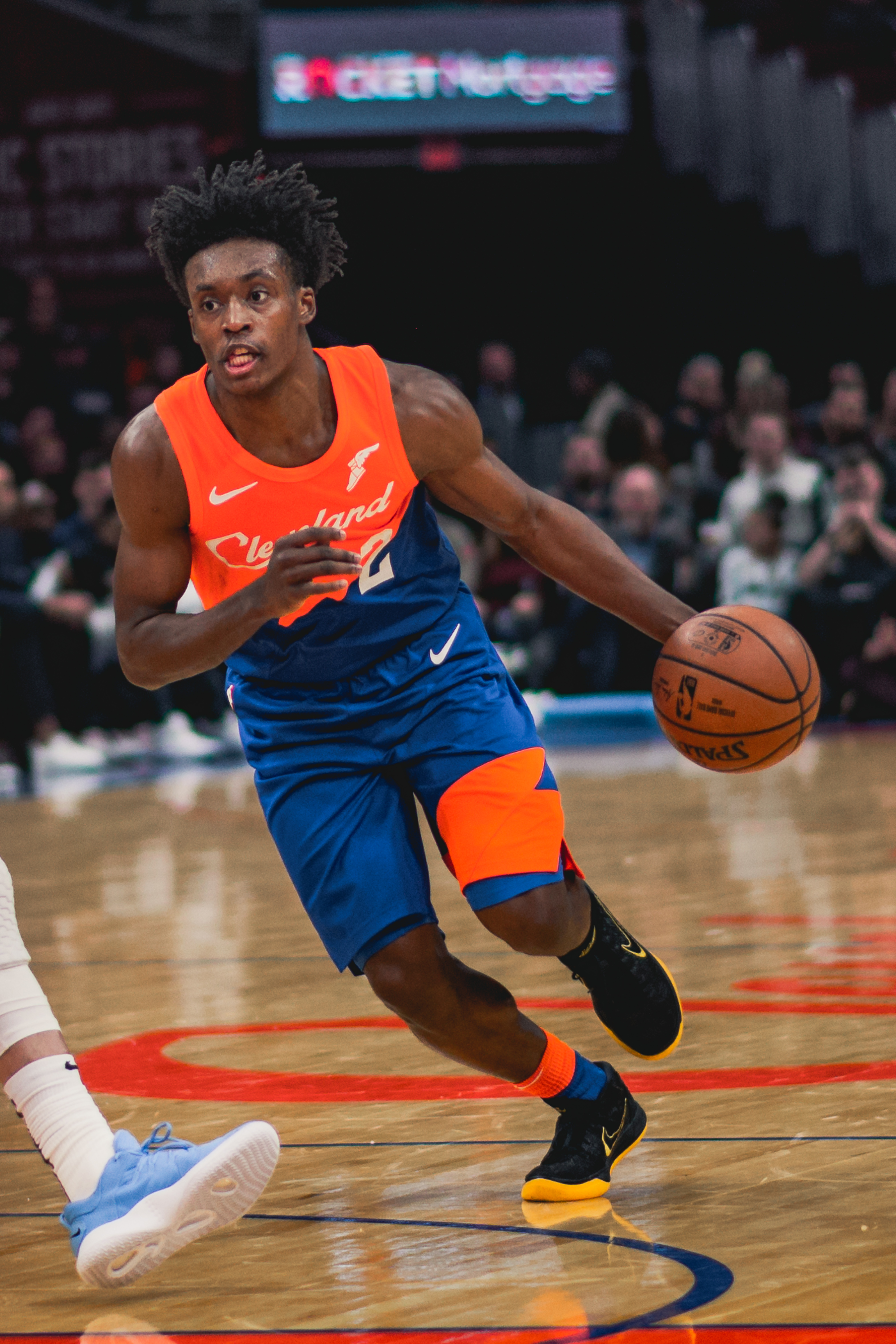 Collin Sexton